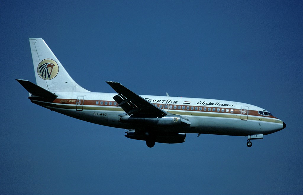 An EgyptAir Boeing 737-266/Adv on short final to Zurich Airport (ZRH / LSZH)